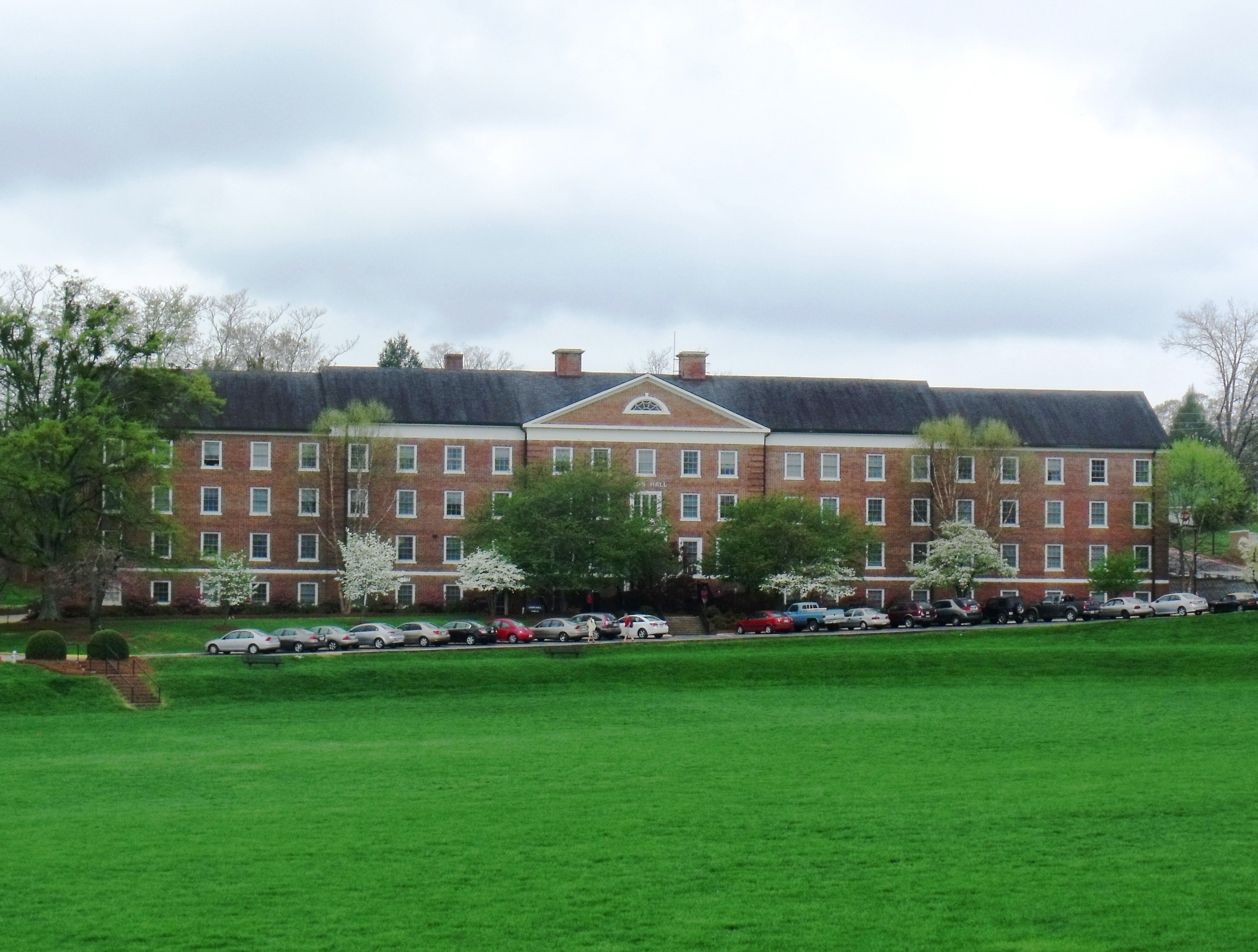 Lewis Residence Hall was built in 1951 to accommodate the rapidly increasing coed population at the University of North Georgia. [1]